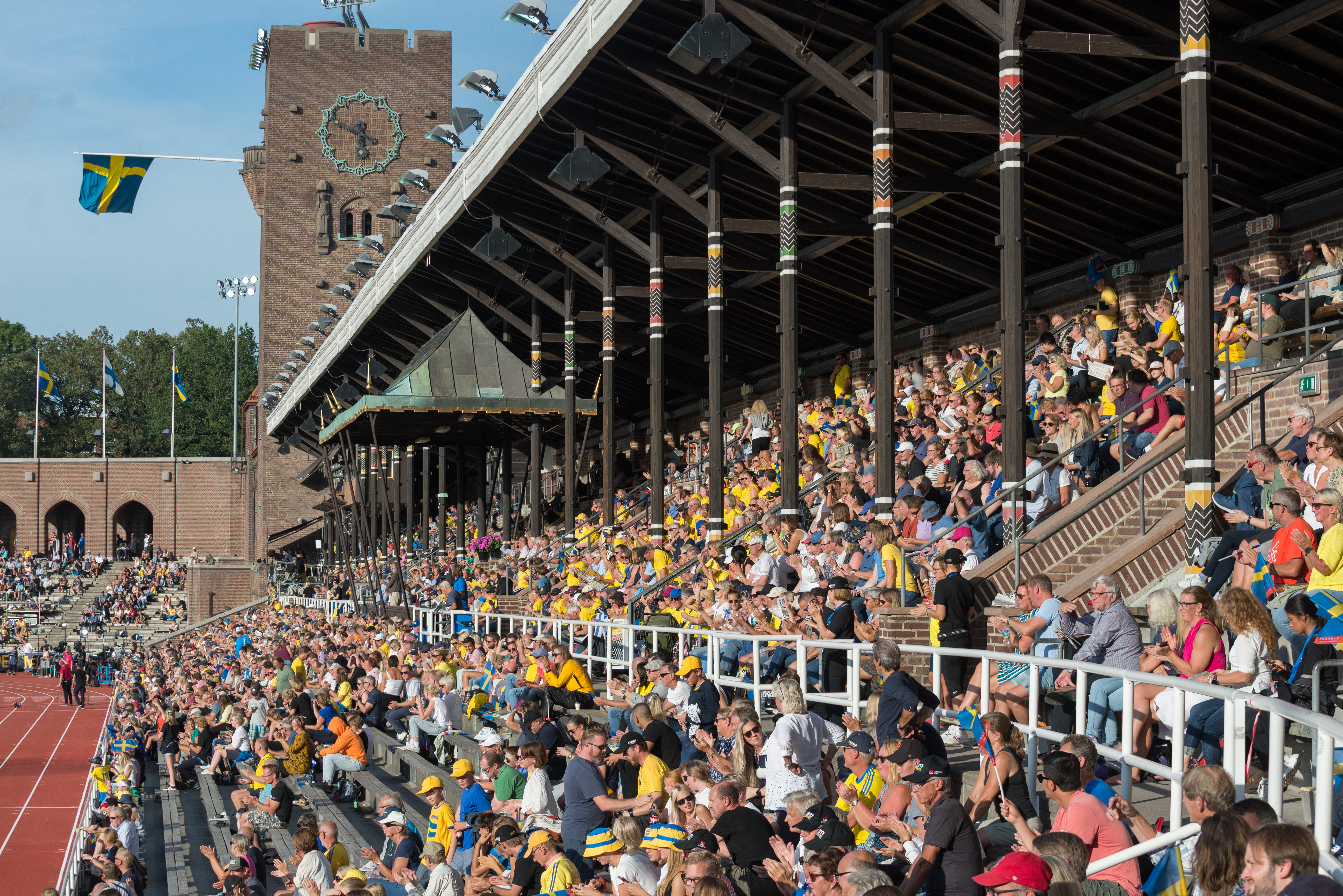 The audience terraces at the Stockholm Stadium in August 2019.